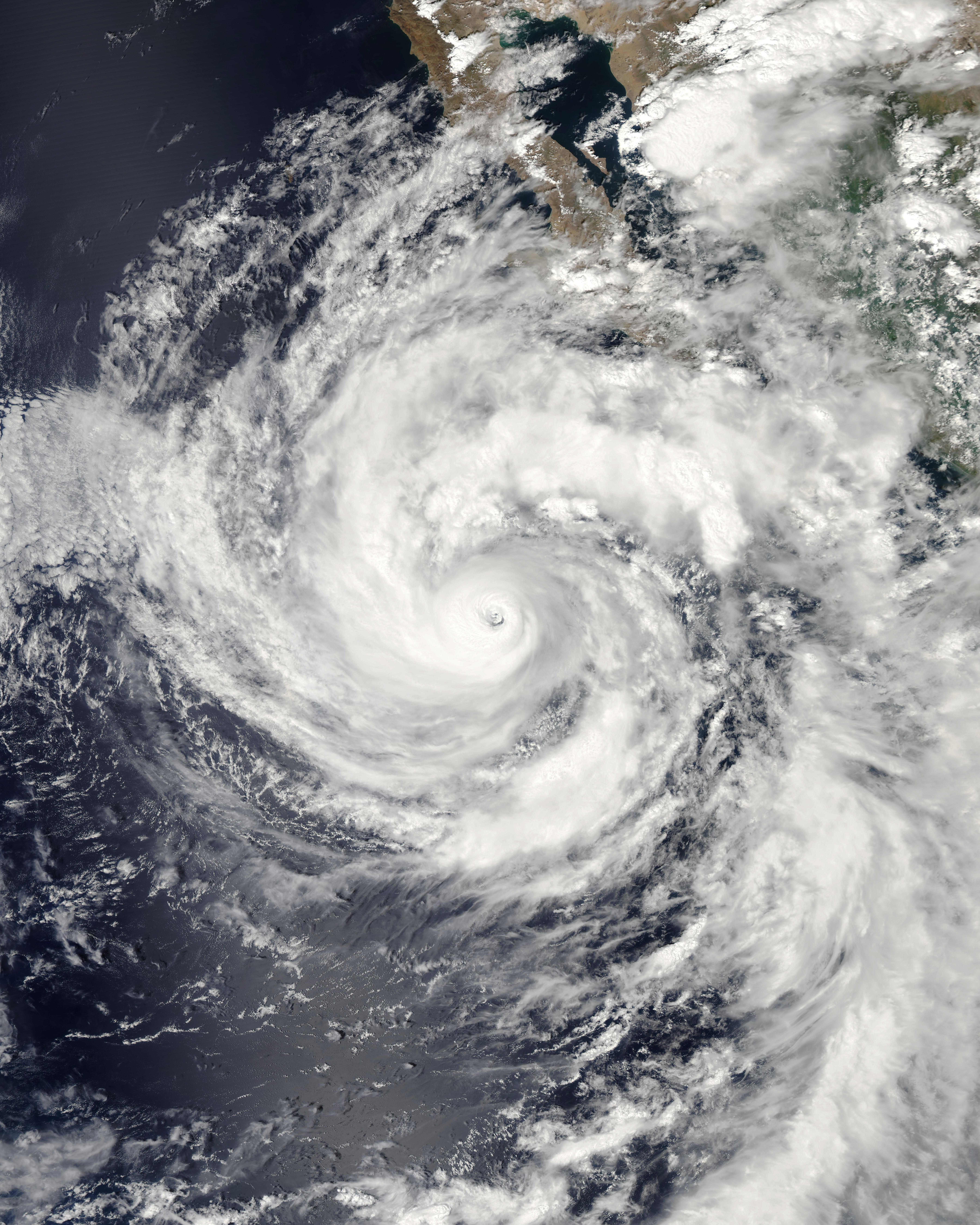 Hurricane Linda (15E) off Mexico